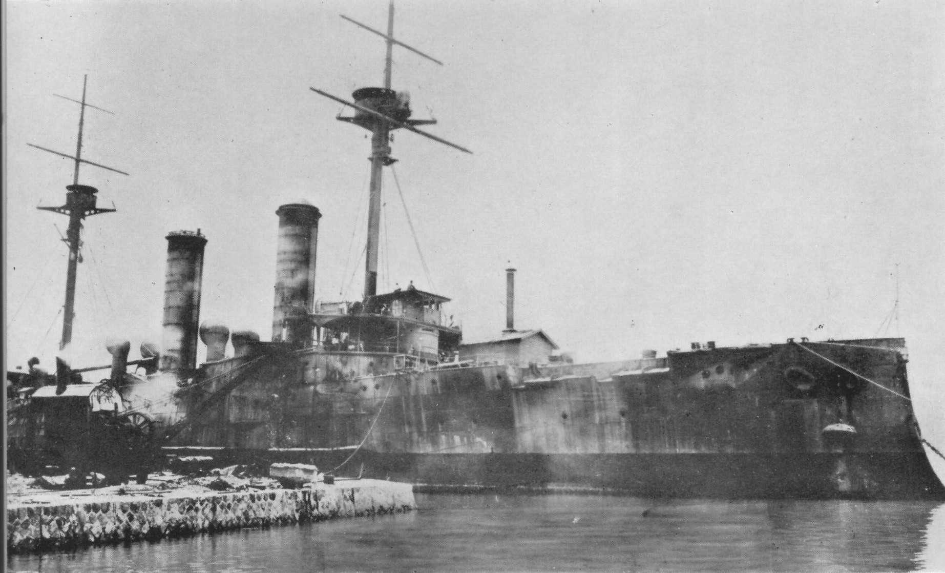 Japanese cruiser "Asama" after the end of the war.